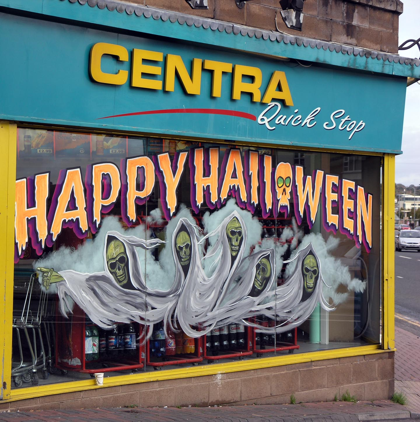 Halloween in Derry 2005. Taken by myself SeanMack.